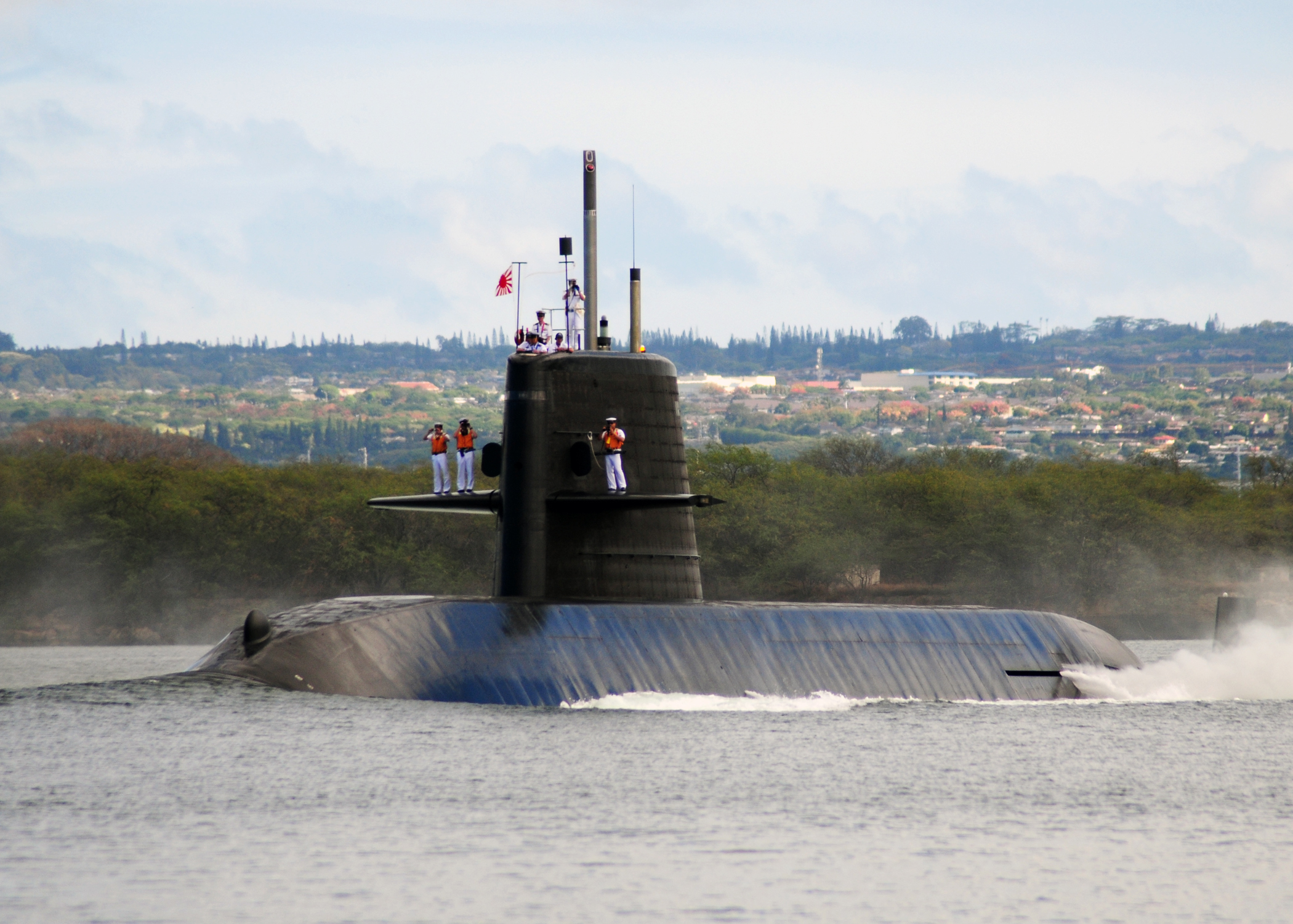 PEARL HARBOR, Hawaii (July 6, 2010) The Japan Maritime Self-Defense Force (JMSDF) submarine JS Mochishio (SS-600) departs Joint Base Pearl Harbor-Hickam to support Rim of the Pacific (RIMPAC) 2010 exercises. Mochisio will be participating in bilateral exercises to strengthen regional partnerships. (U.S. Navy photo by Mass Communication Specialist 2nd Class Jon Dasbach/Released) Nikon D300S